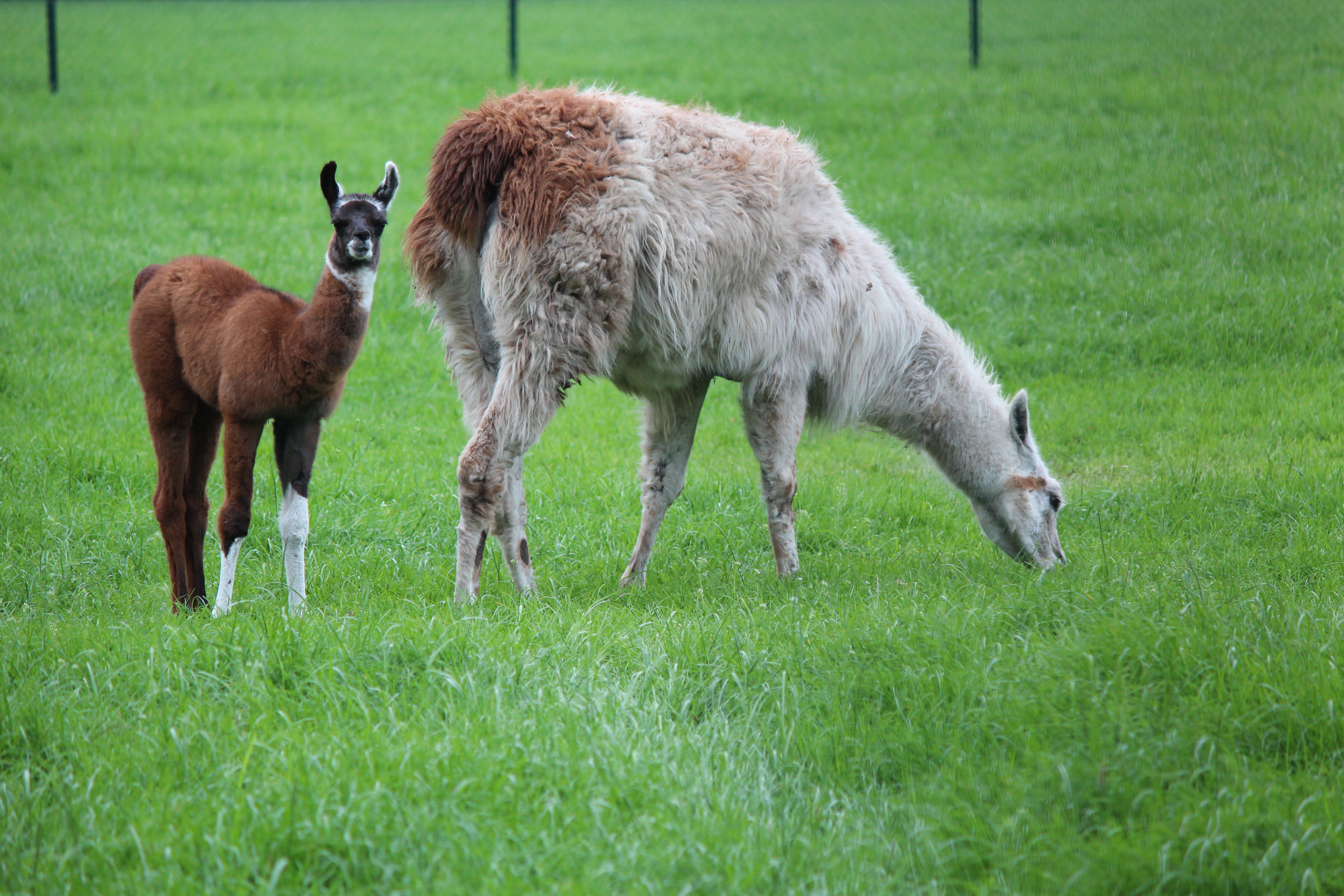 Llama (Lama glama) in Venray, Netherlands